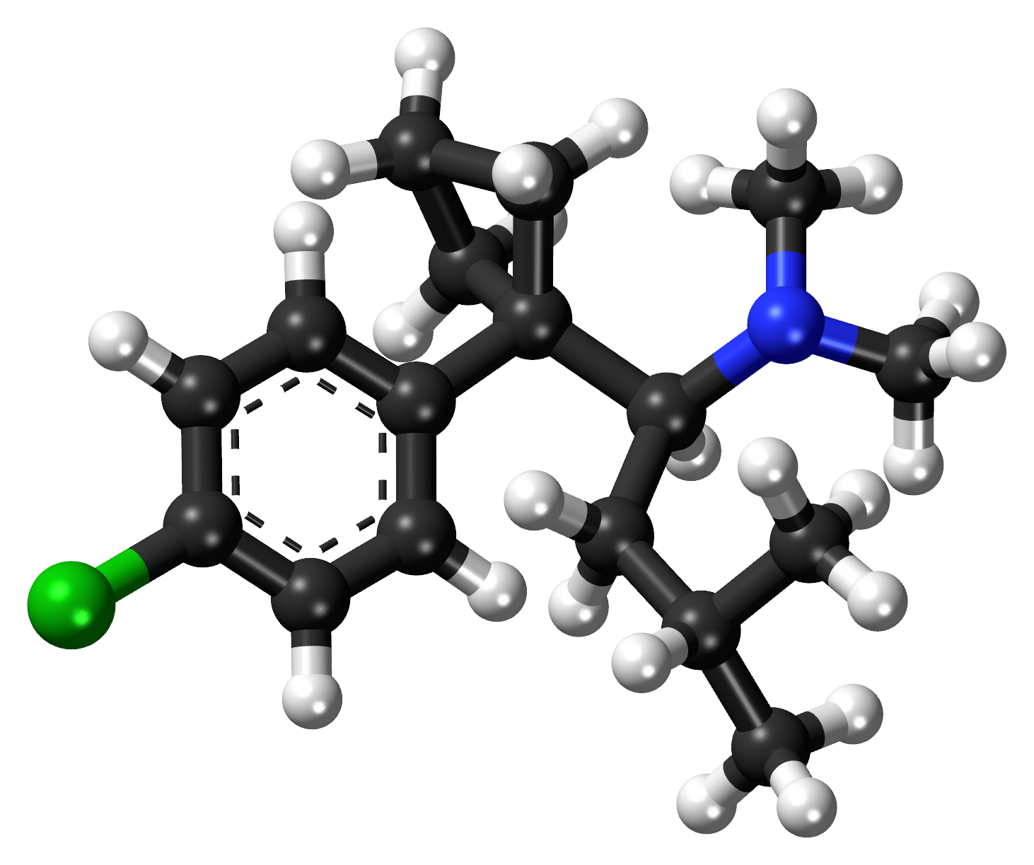 Ball-and-stick model of sibutramine — an oral anorexiant. Sibutramine is a racemic mixture, only (S)-(−)-enantiomer is portrayed. Created using Accelrys DS Visualizer 4.1 and Adobe Photoshop CC 2015. Colors used: Carbon, C: black Hydrogen, H: white Nitrogen, N: blue Chlorine, Cl: green This chemical image was created with Discovery Studio Visualizer.